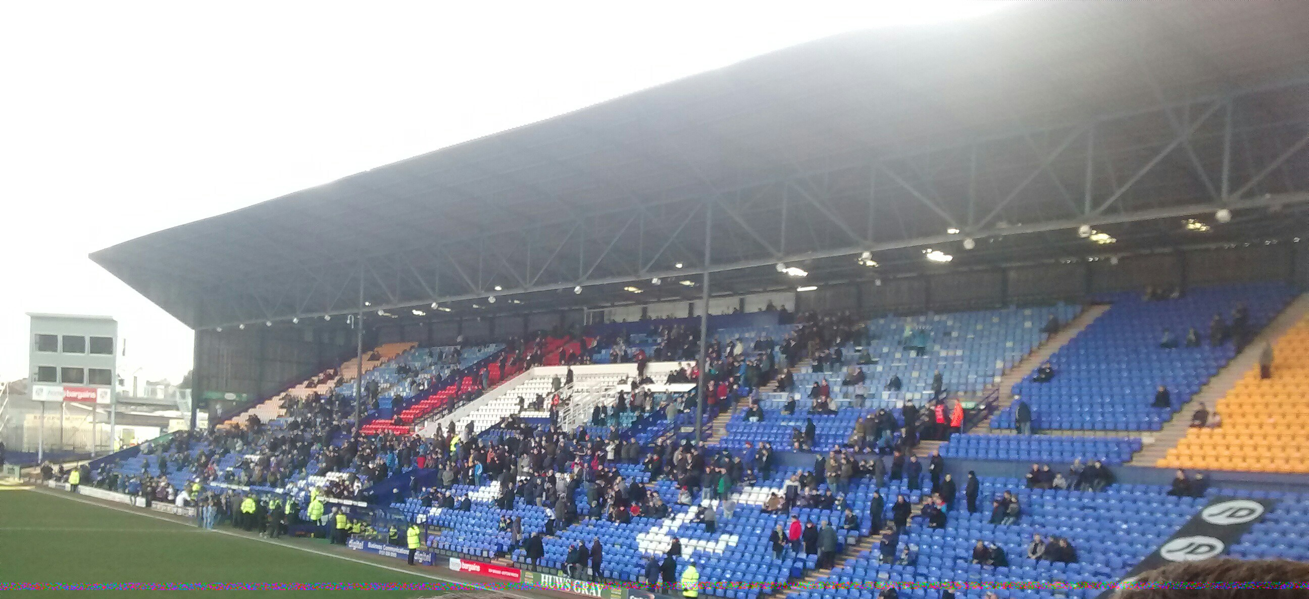 The Main Stand at Prenton Park pictured before a match against Shrewsbury Town in 2015